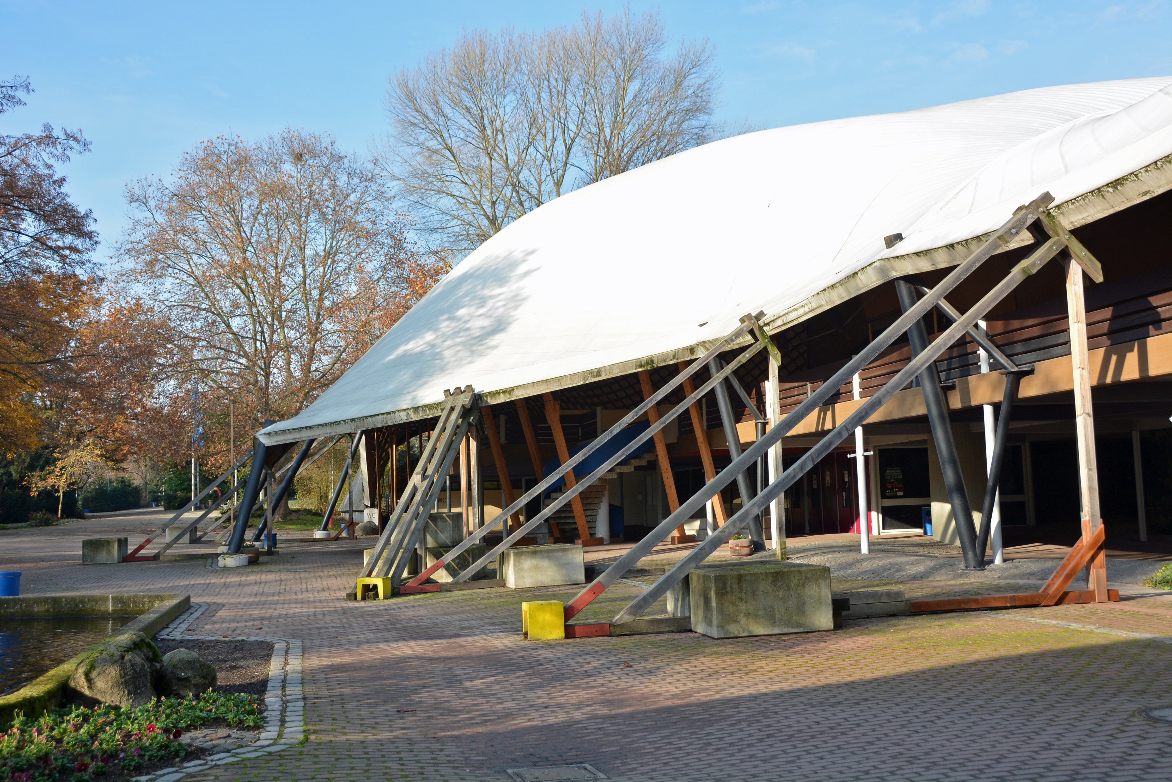 Multi hall, Herzogenried park, Mannheim (Germany), with supports at the roof edge